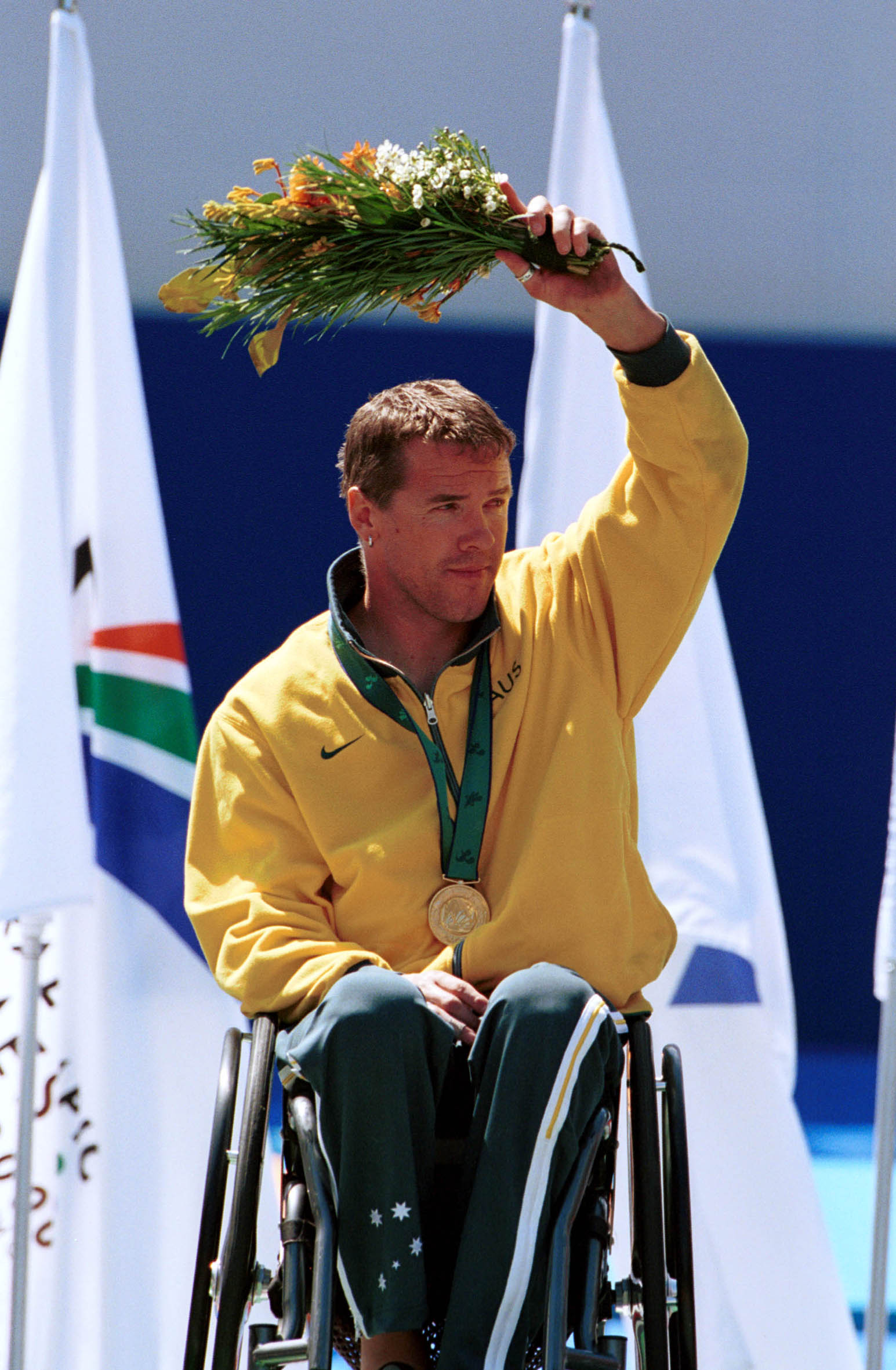 Australian wheelchair racing athlete Greg Smith (seen waving to the crowd) on the gold medal podium for winning the 5000 m T52 final at the 2000 Sydney Paralympic Games, Day 05